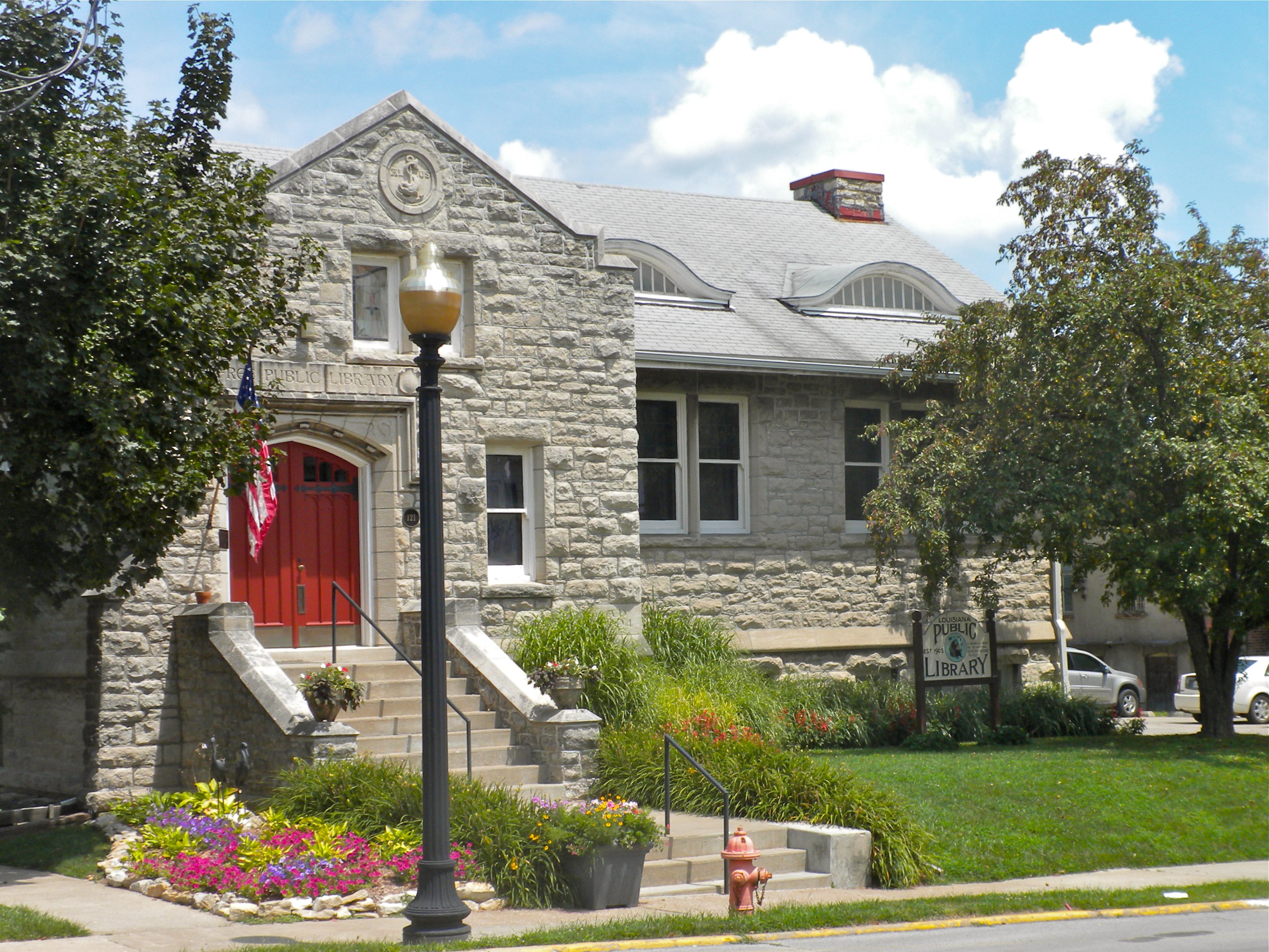 Louisiana Public Library on the NRHP since April 12, 1996. At 121 N. 3rd St., in the town of Louisiana, Missouri, in Pike County, Missouri